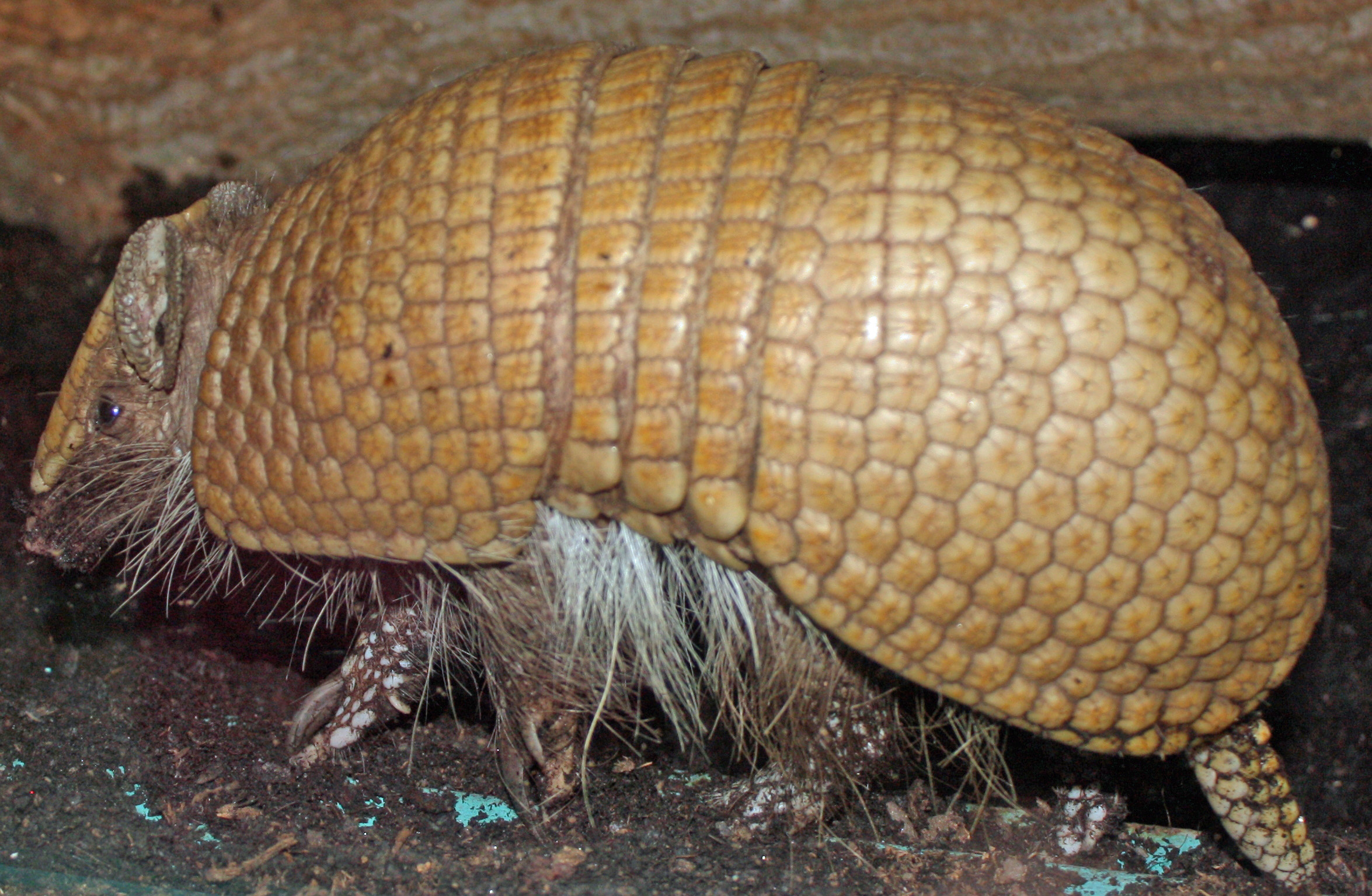 Southern Three Banded Armadillo (Tolypeutes matacus) at the Louisville Zoo